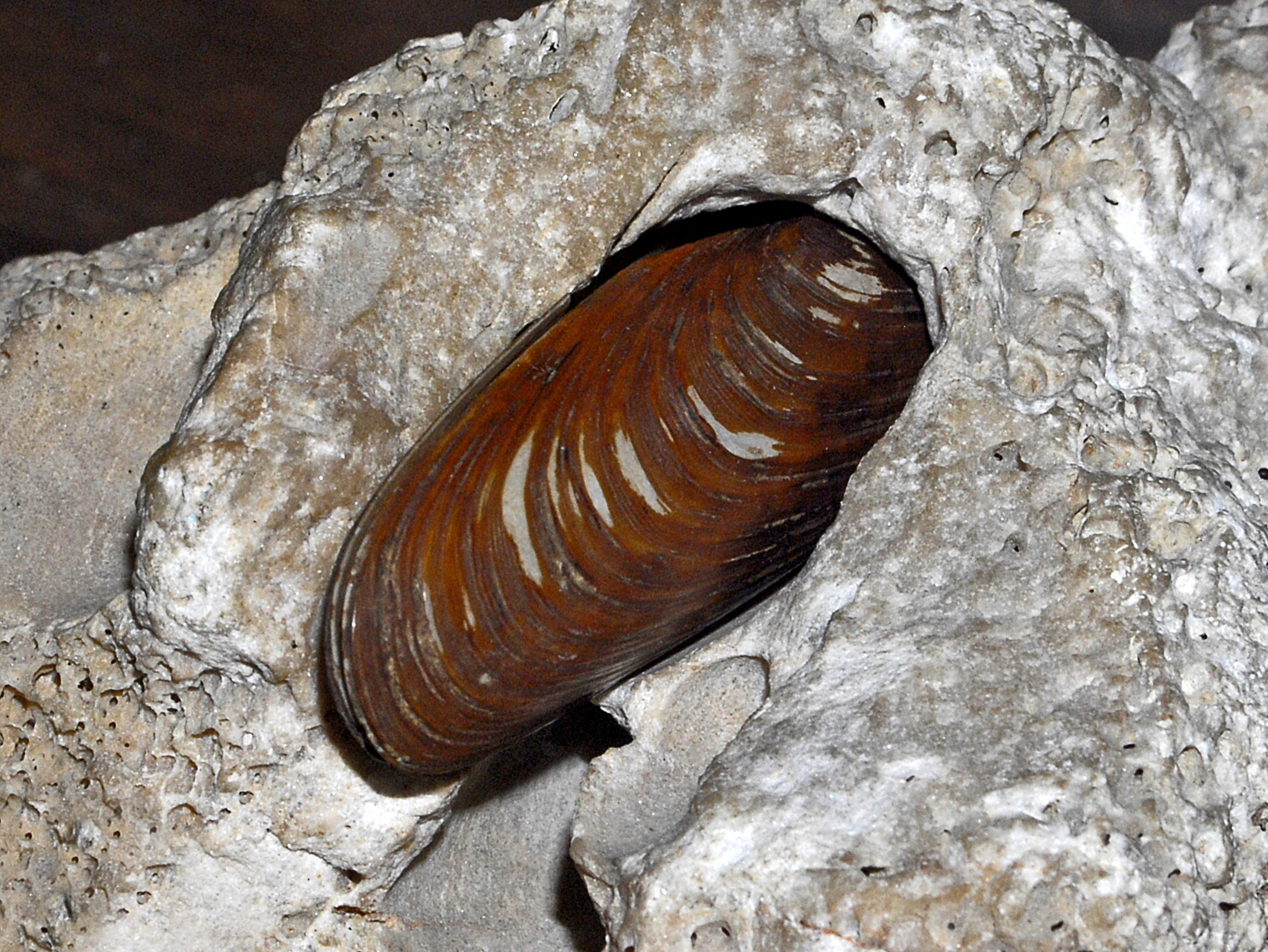 A shell of Lithophaga lithophaga on display at Museo di Storia Naturale di Pavia